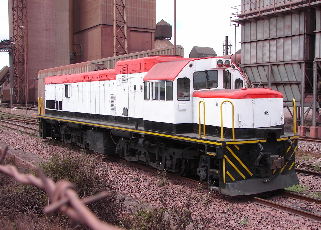 South African Class 32-200 32-202Builder's Number: GE 35843Type: U20C1Location: Saldanha, Western Cape